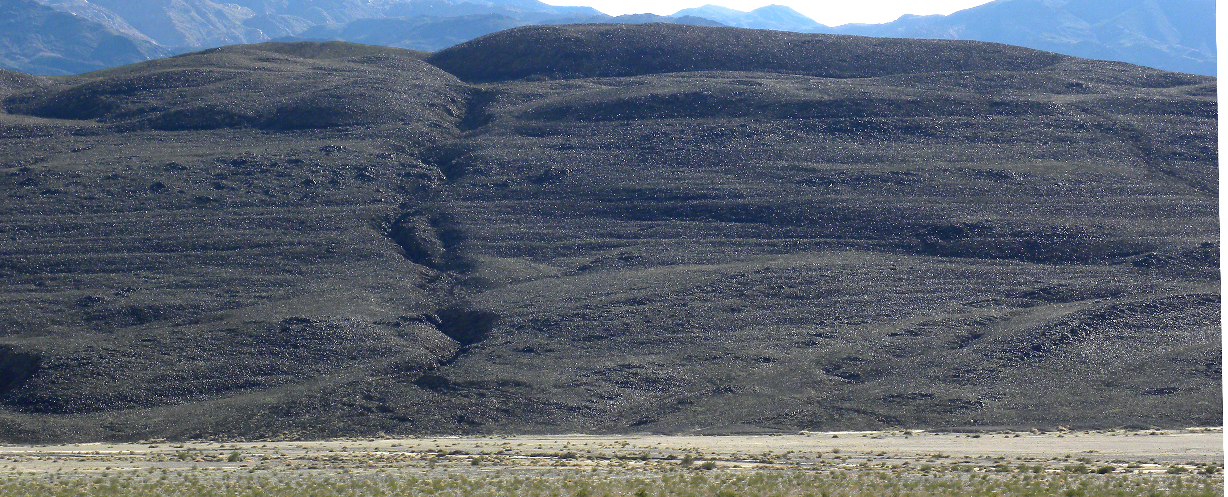 Shoreline Butte in Death Valley, California, showing ancient strandlines of Lake Manly.